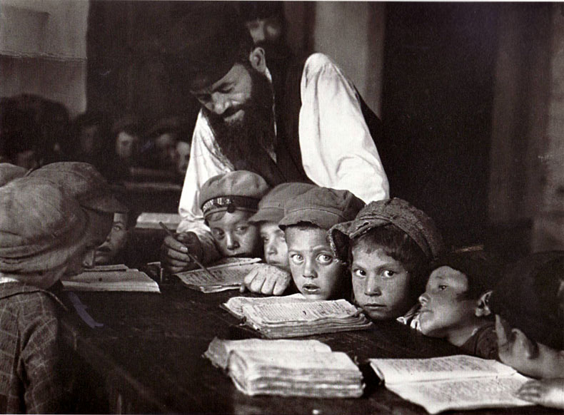 'Giving a hint'. Children learning Hebrew by sounding out the words in prayer books. Lubli, Poland, 1924.